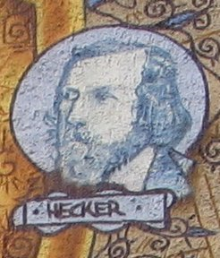 Painting of Friedrich Hecker